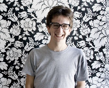 Paul Rust